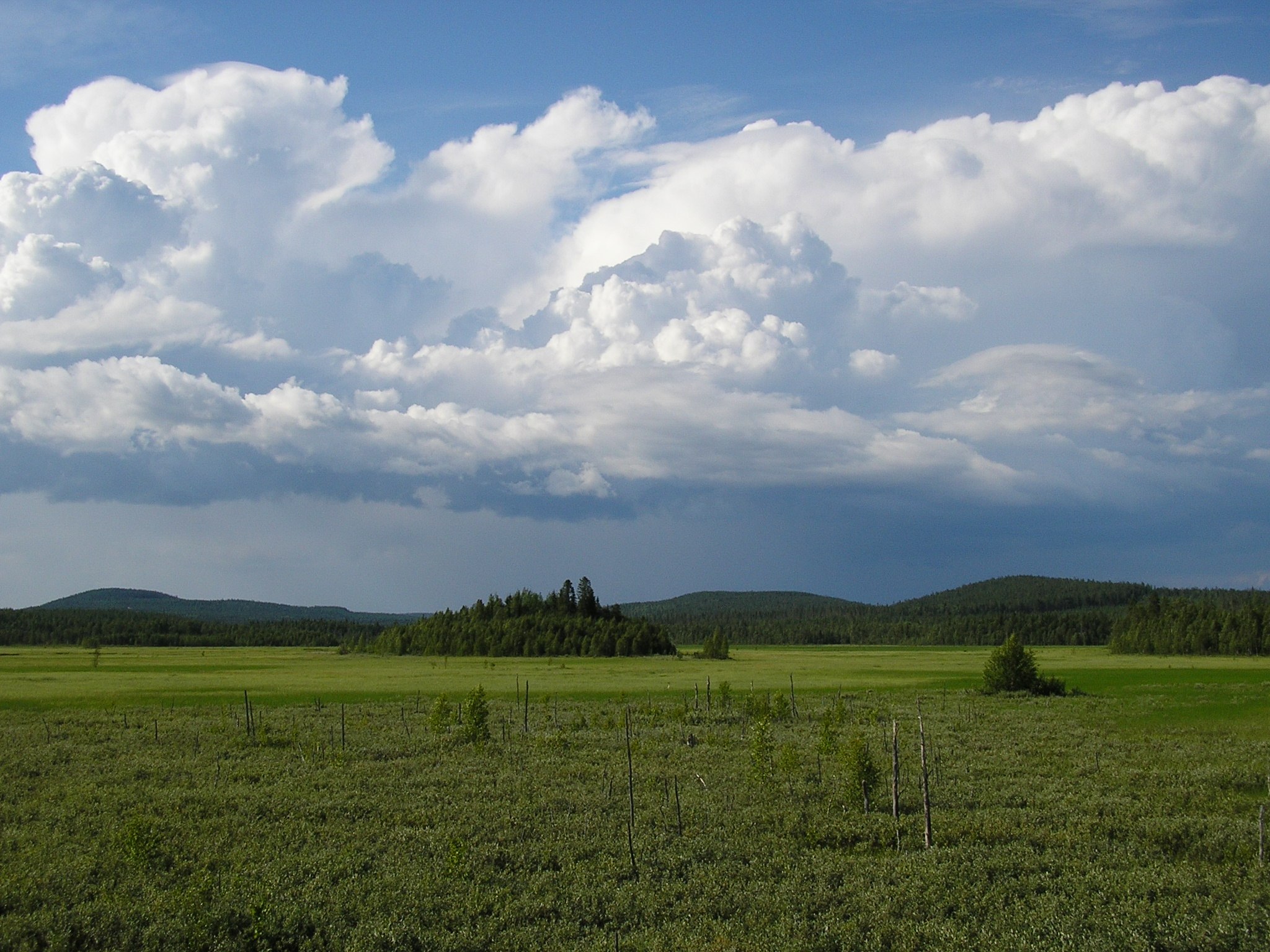 Hillajänkkä